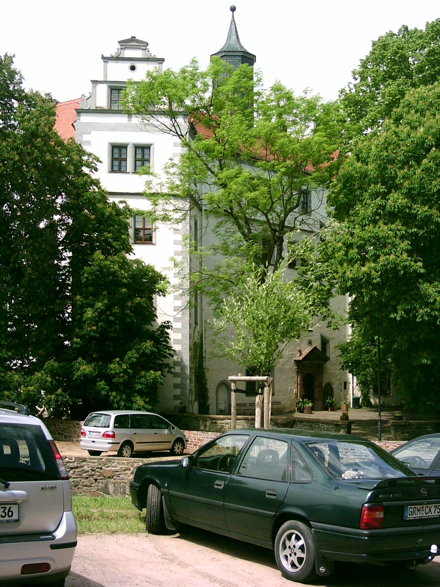 The castle Podelwitz (Zschadraß) at the river Mulde near Colditz